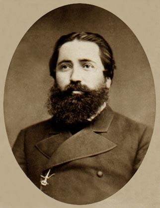 Georgian Poet and public figure Ilia Chavchavadze (1837-1907)